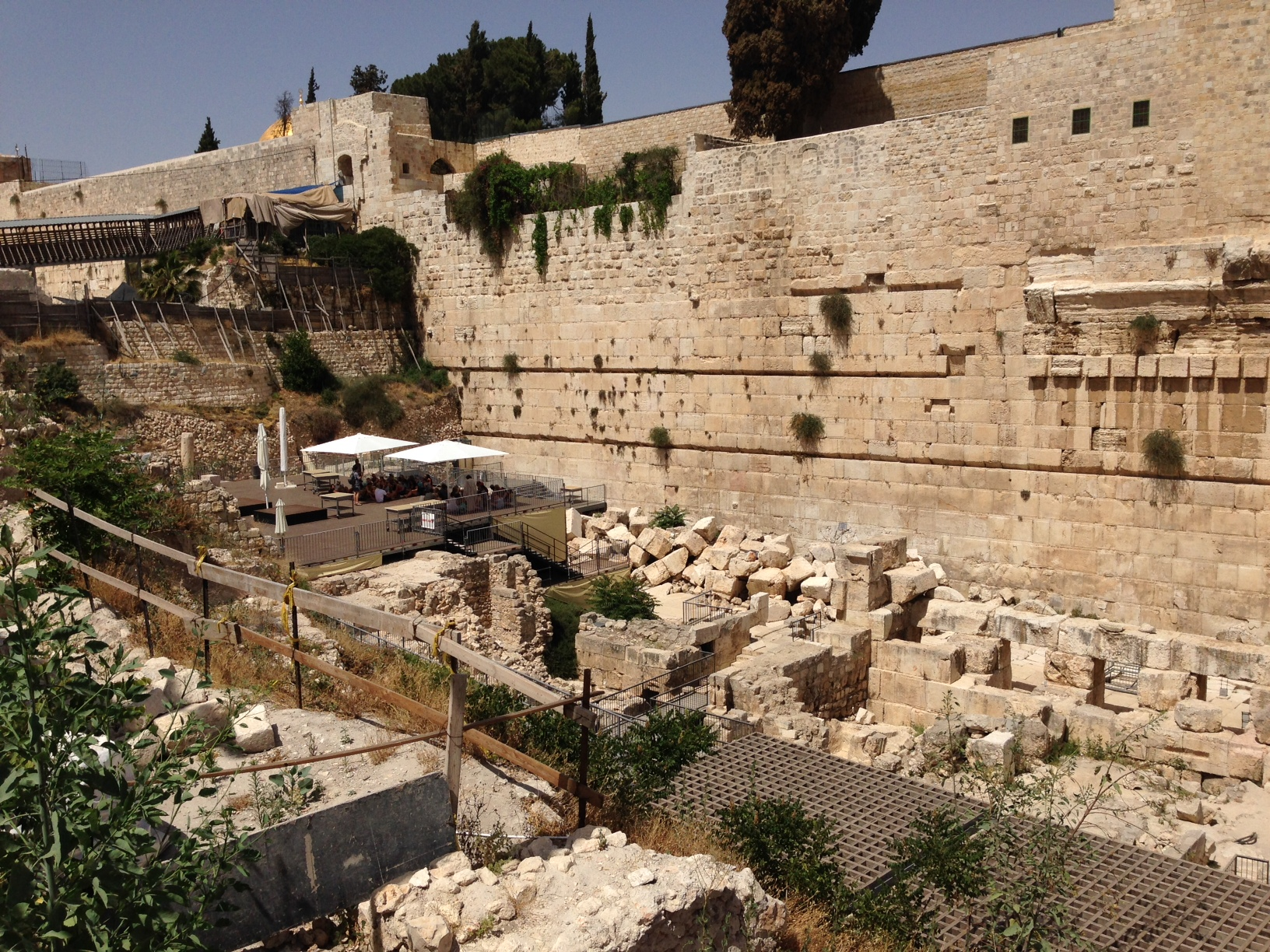 Prayer Platform (Azarat Yisrael Plaza) at Robinson's Arch, opened 25 August 2013